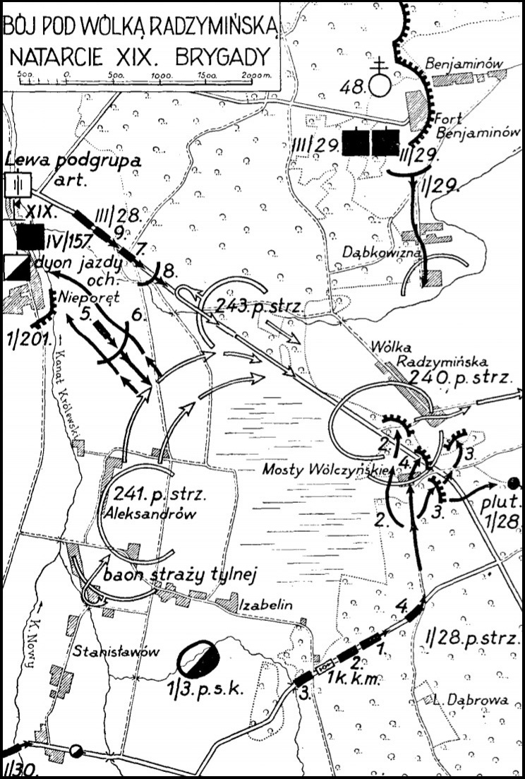 Battle for the Warsaw bridgehead. Fight at Wólka Radzymińska - attack of the 19th Brigade. Sketch No. 59.